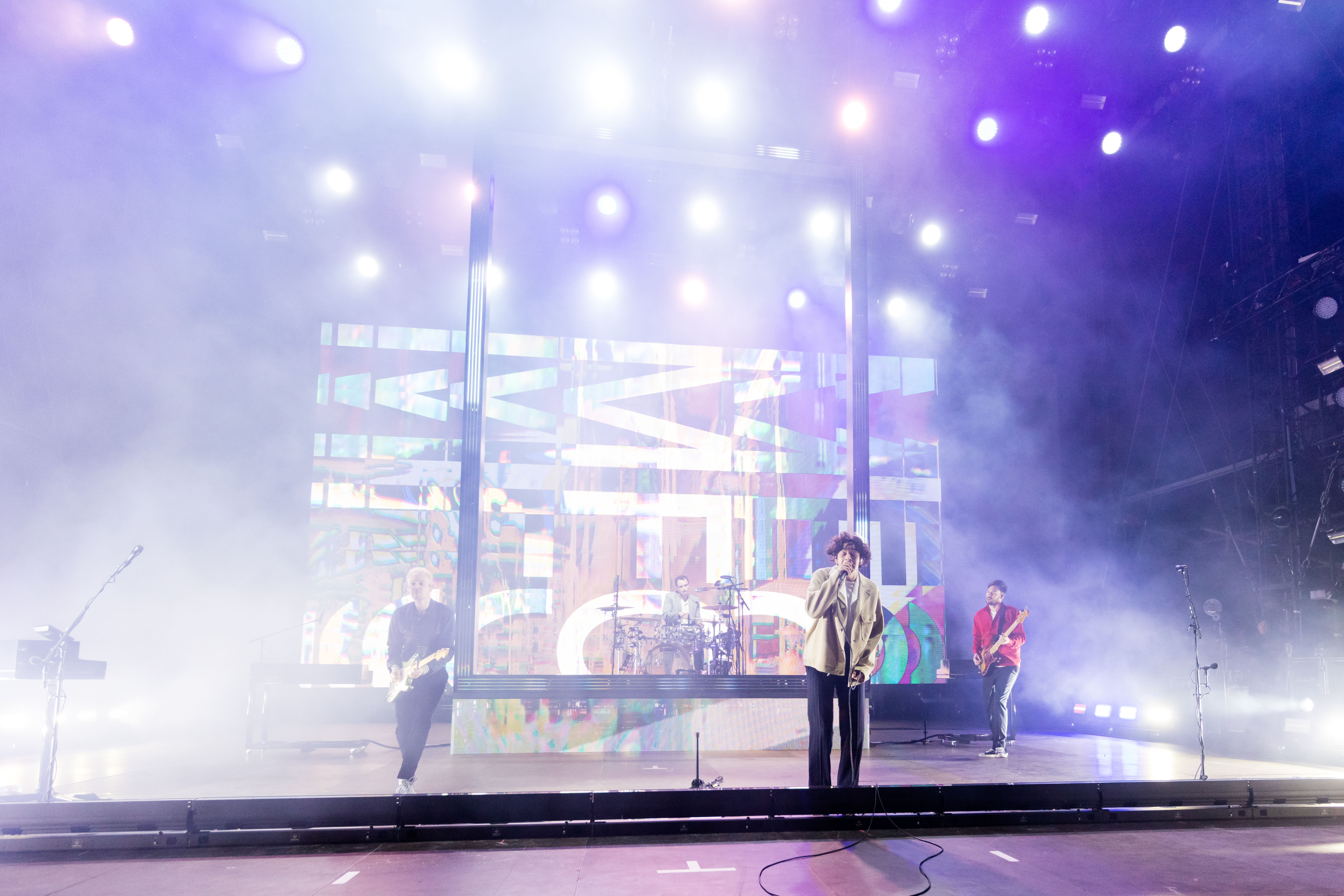 The 1975 during Rock am Ring ( at Nürburgring, Rheinland-Pfalz, Germany on 2019-06-07, Photo: Sven Mandel Promotion by Live Nation (